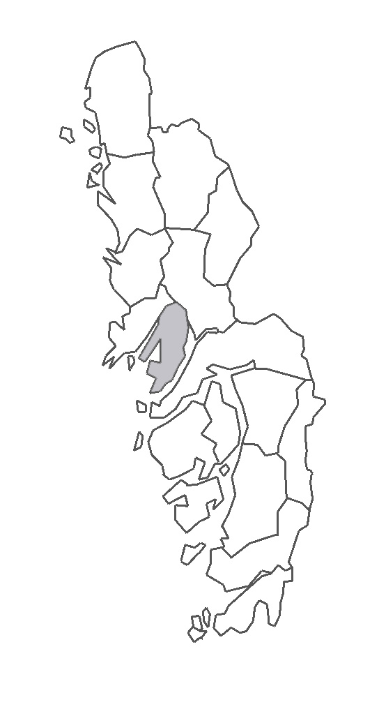 Map describing the location of Stångenäs Hundred in Bohuslän Province, Sweden.